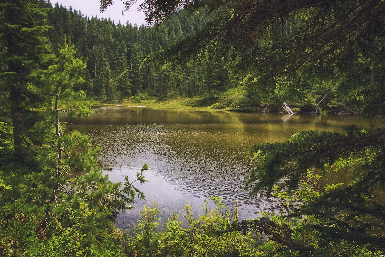 Summit Lake Trail 1177, Washington state